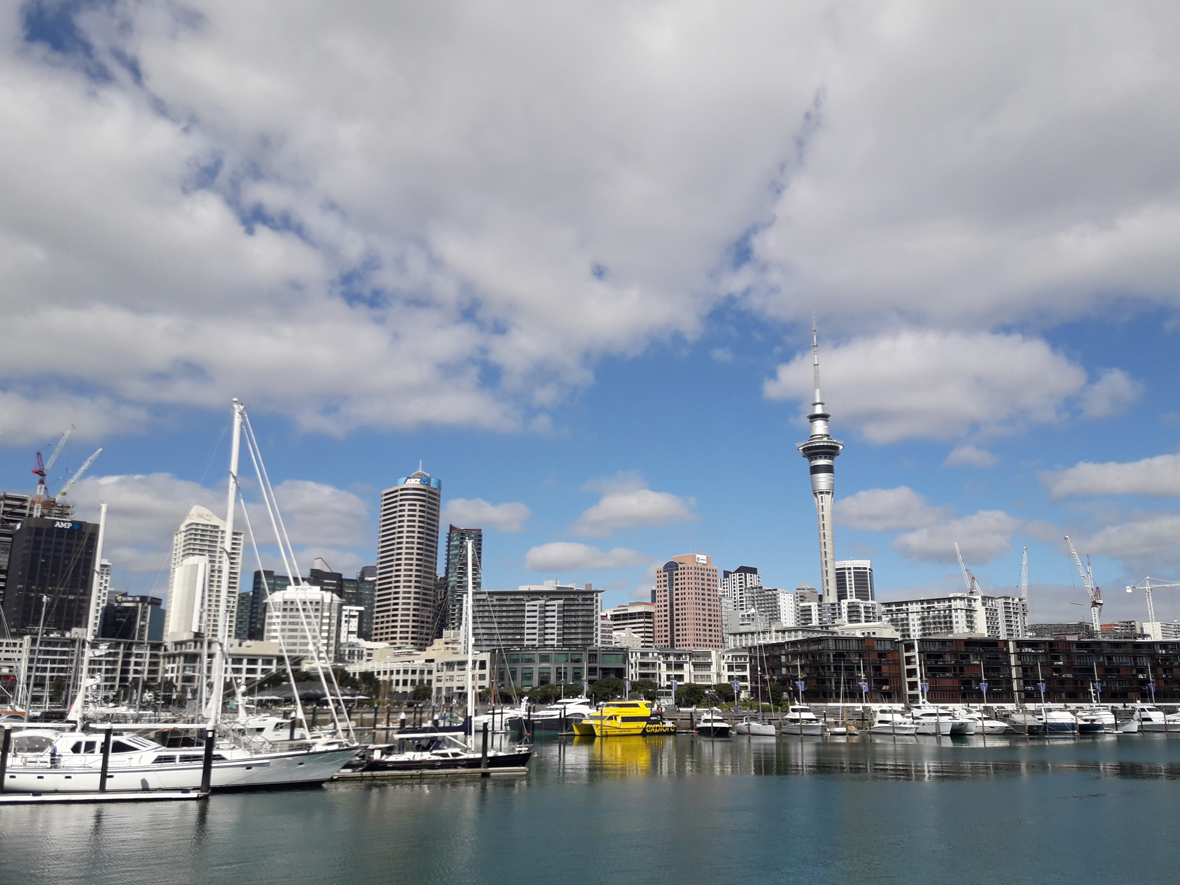 View of Auckland CBD from the Wynyard Quarter